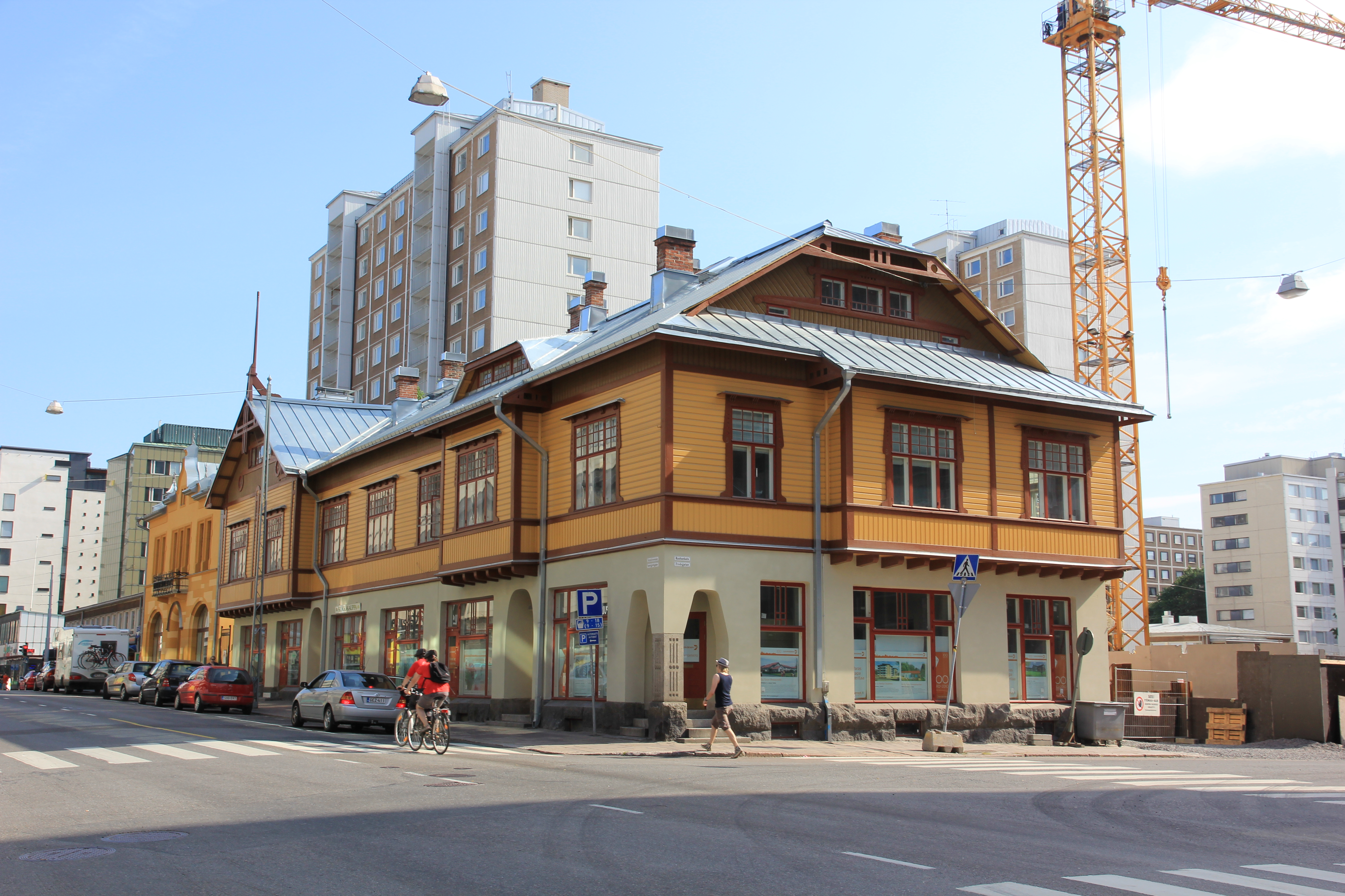 Wooden building in Turku at the corner of Rauhankatu and Humalistonkatu streets.